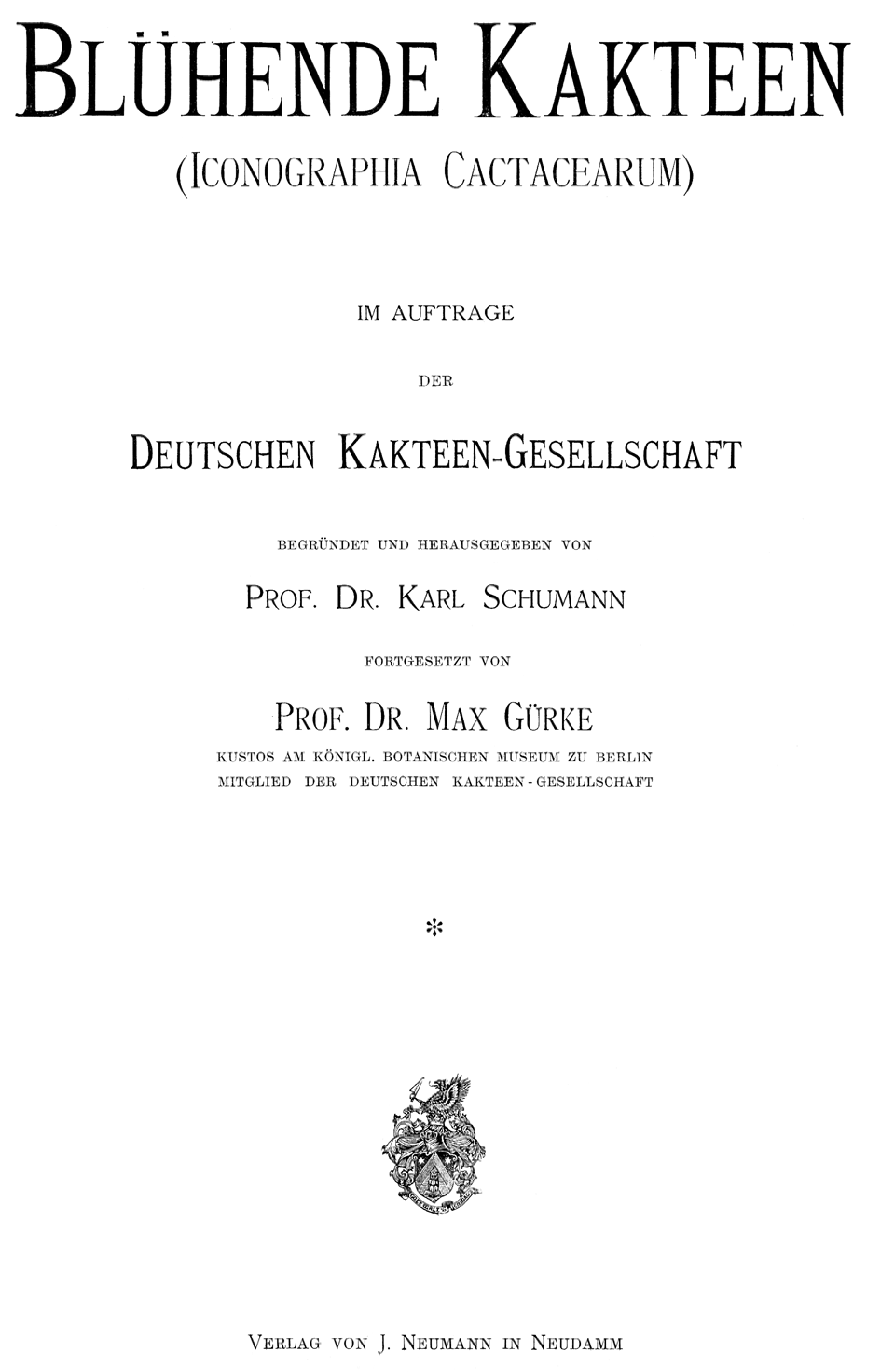 Titlepage of Blühende Kakteen - Iconographia Cactacearum Volume 1